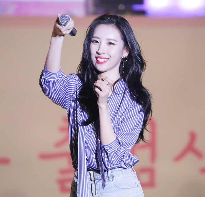 Lee Sun-mi perfoming at Keimyung University on March 28, 2018